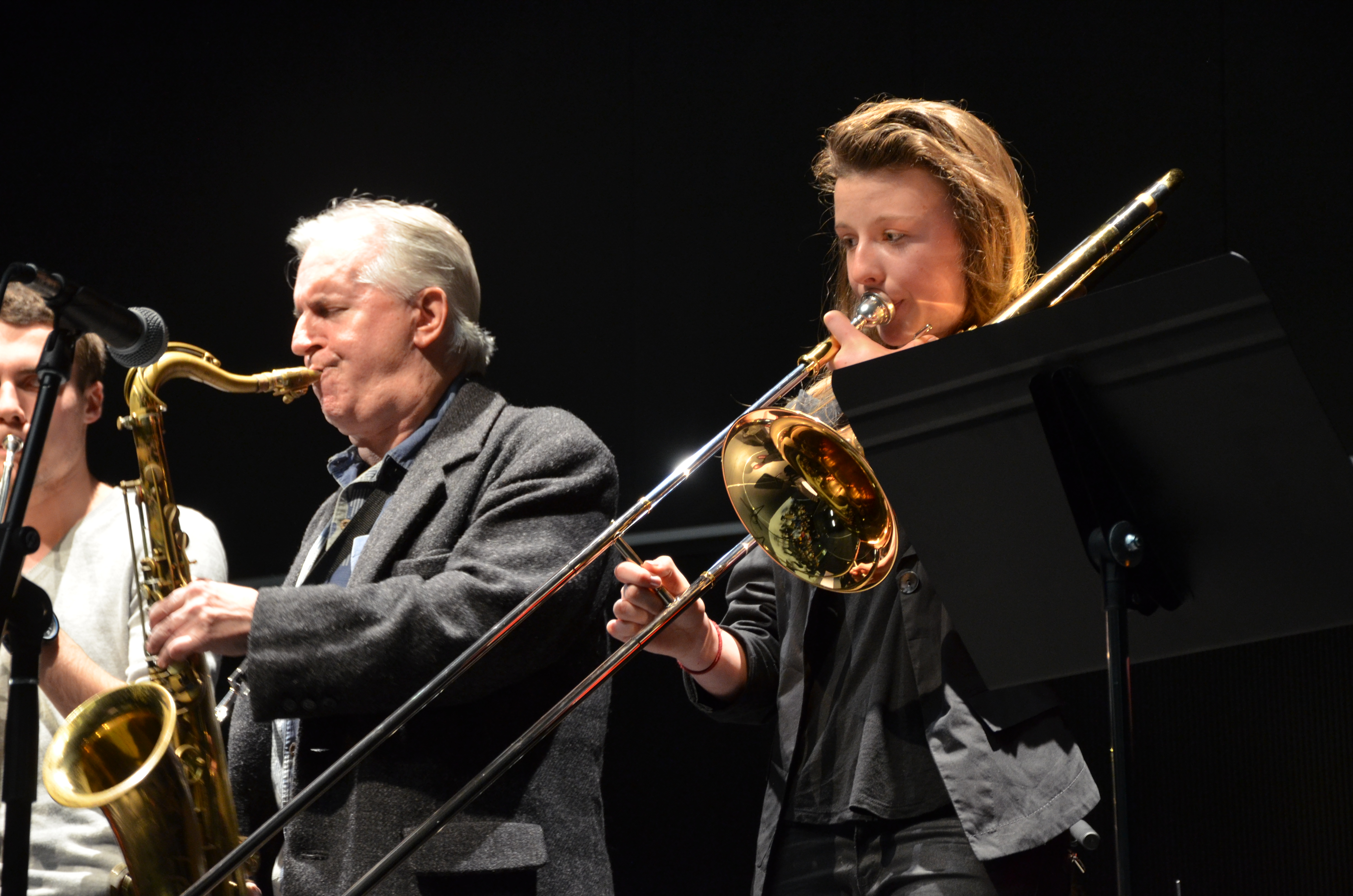 Scott Hamilton, 6 December 2014, Masterclass in Antony (France)